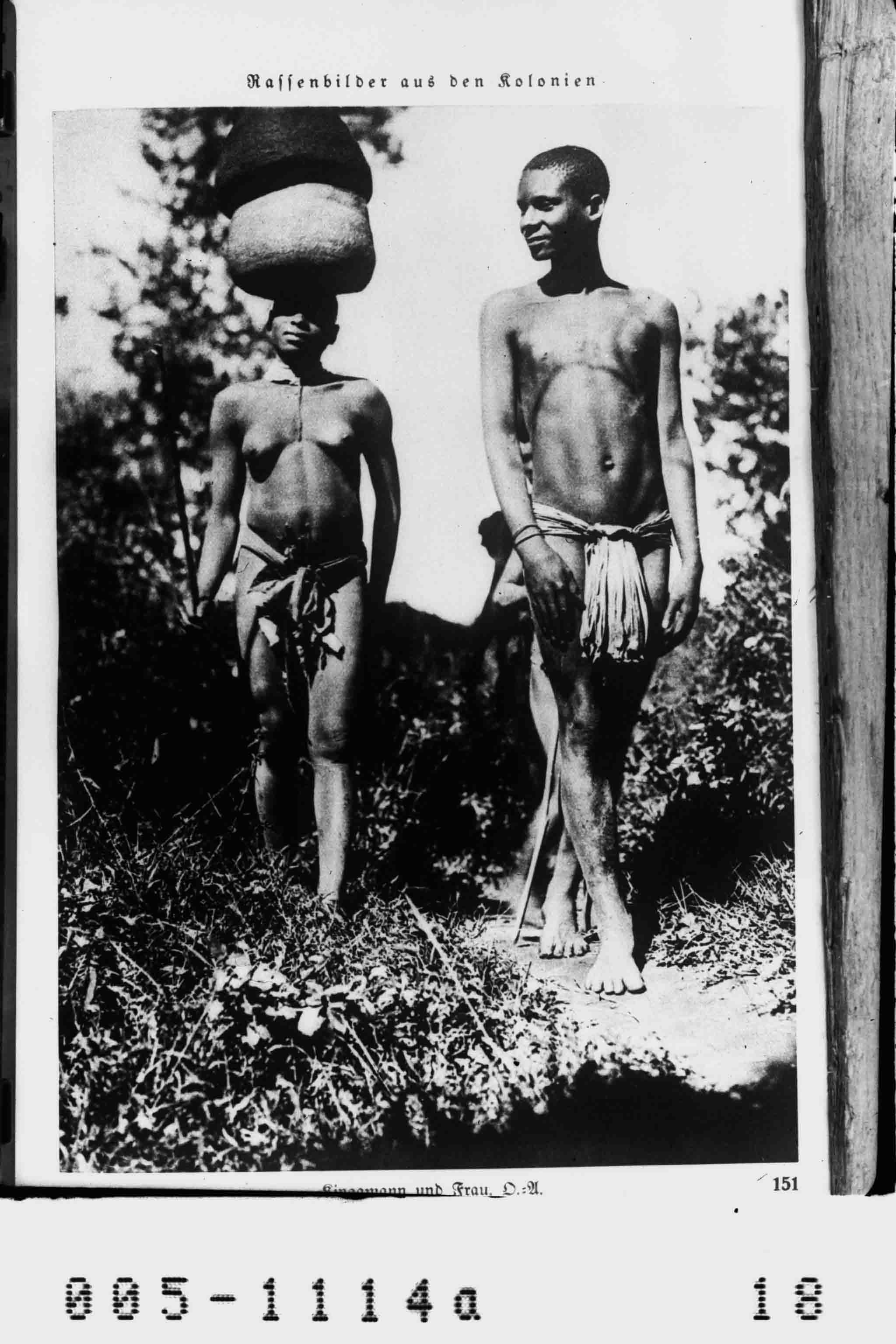 Kinga man and Woman